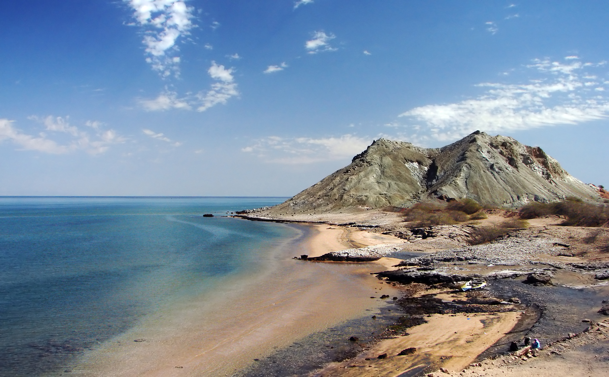 This is Khezr beach in Hormoz island. Locals say that this beach is named Khezr beach.